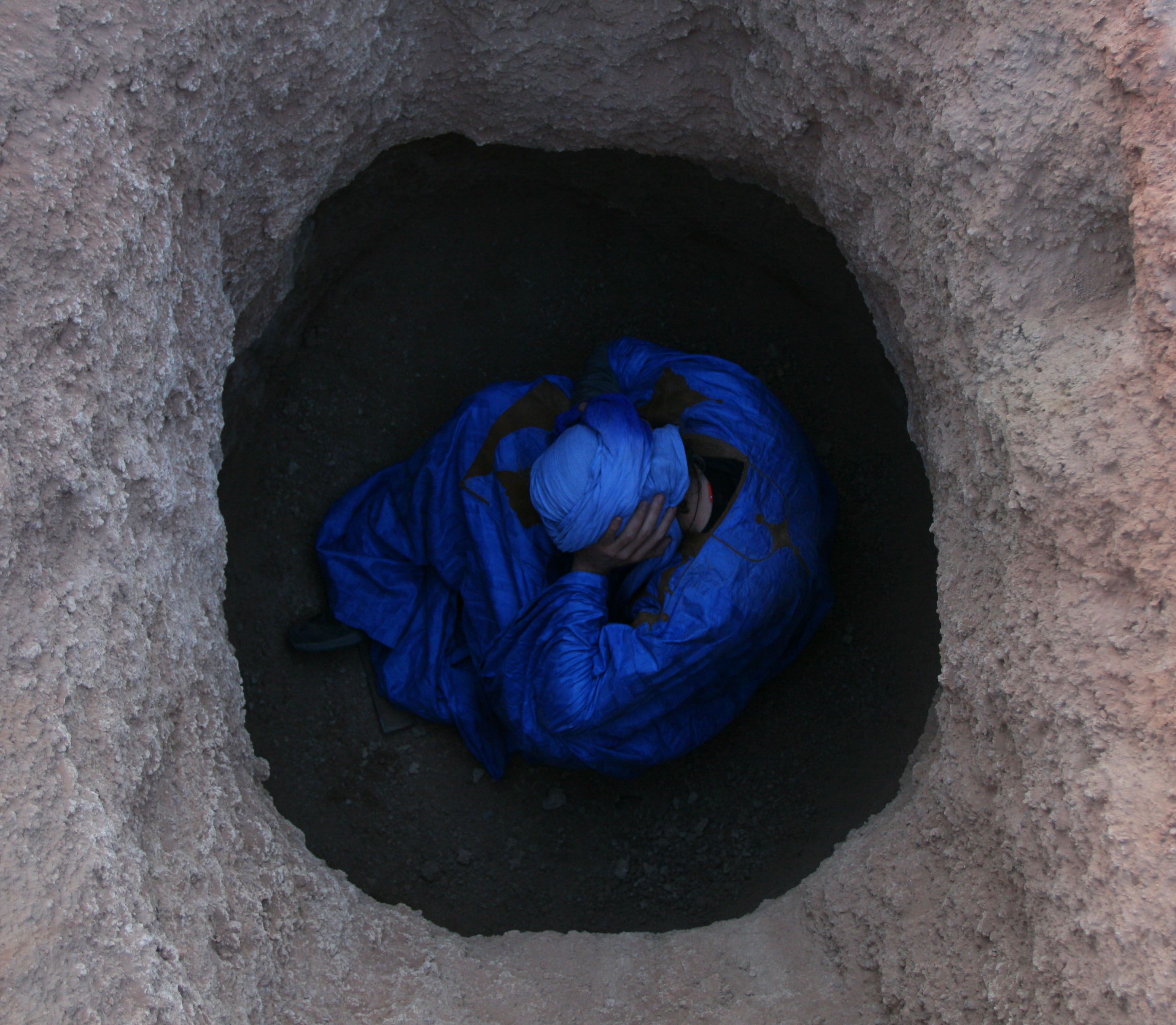 Isidro López-Aparicio performing the piece: isolation in the Western Sahara desert (Tifariti), denouncing the isolation suffered by the Saharawi people in the refugee camps of Tindouf since 1975.